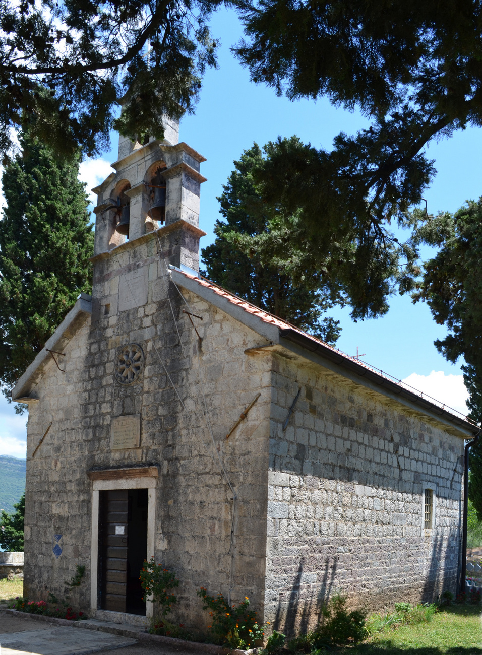 church at Prevlaka, Montenegro